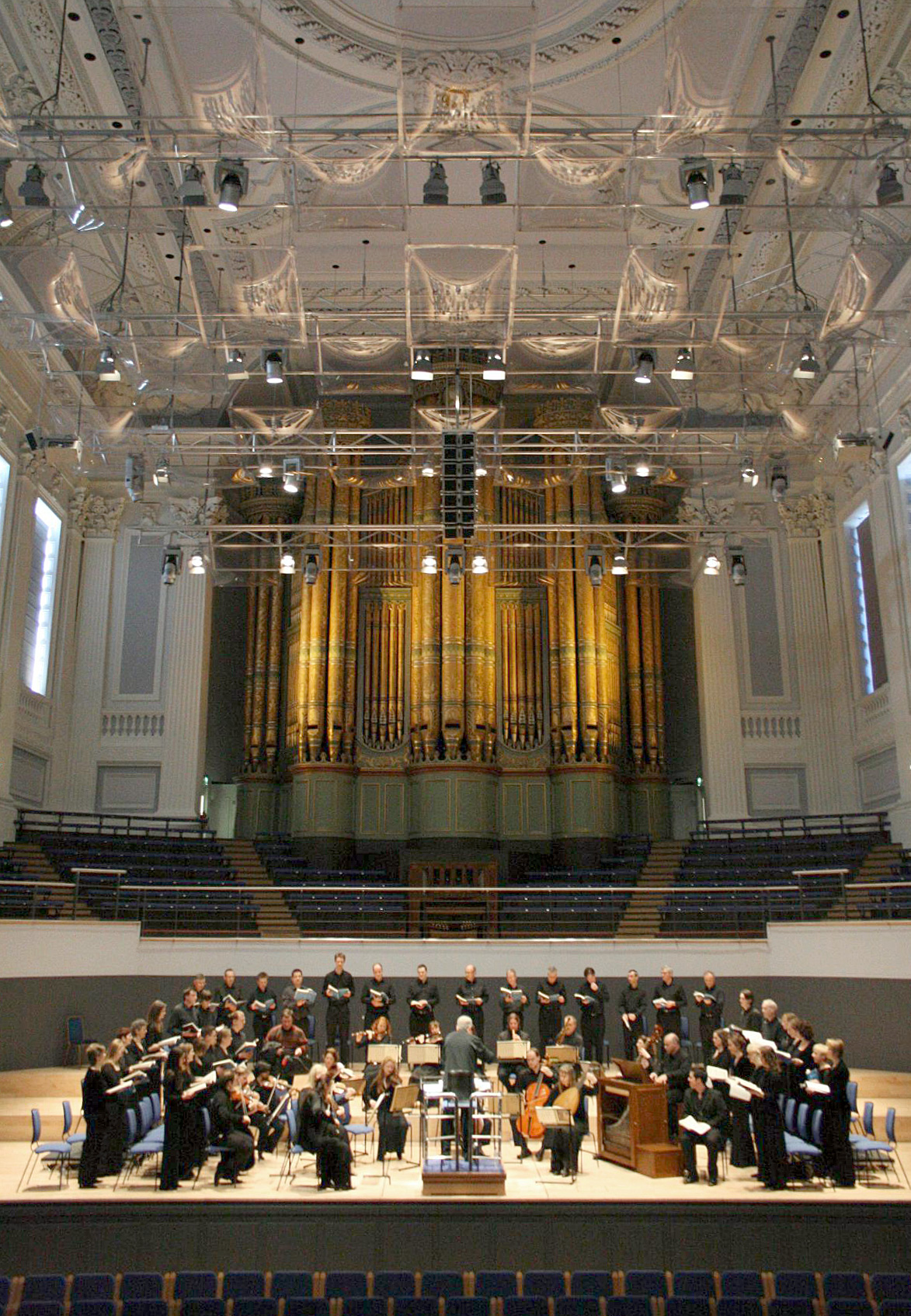 The Ex Cathedra Choir, a British choir based in Birmingham in the West Midlands, England, performing at the Birmingham Town Hall.